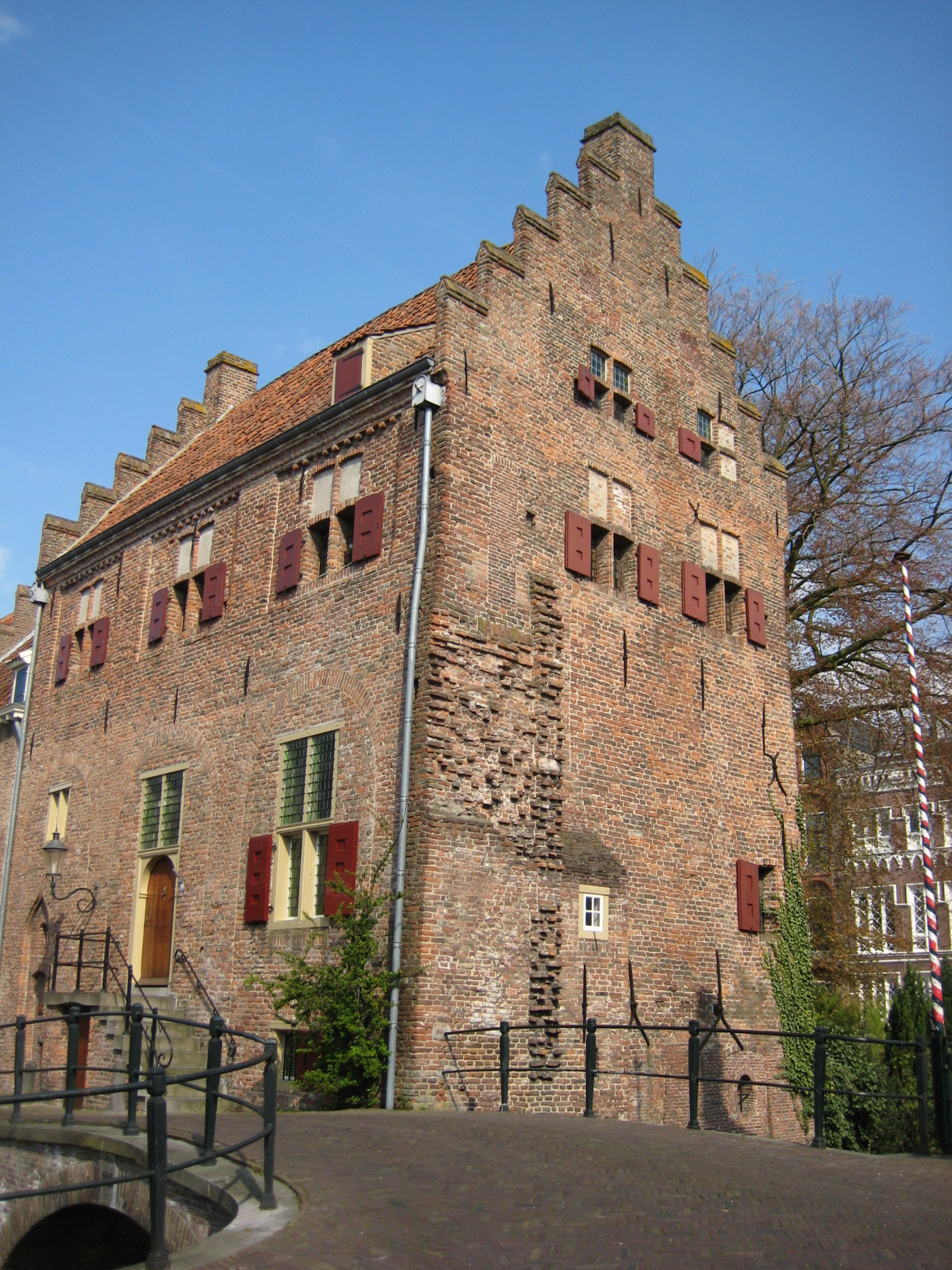 Once part of the old fortification of Amersfoort, it became a house in 1452